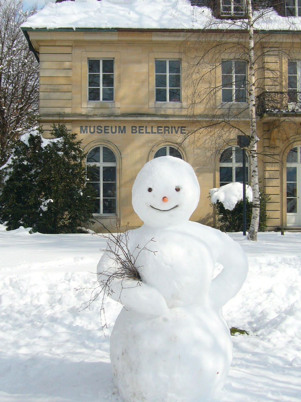 Snowman in front of the Bellerive museum in Zurich, Switzerland.